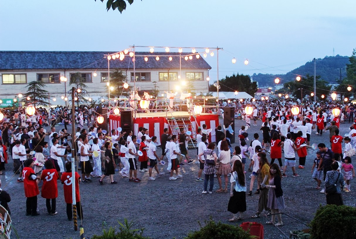 Title 納涼盆踊り大会 姫路駐屯地8.jpg Album Events and Public Relations (イベント・行事・広報活動等) 姫路駐屯地納涼盆踊り大会（姫路）